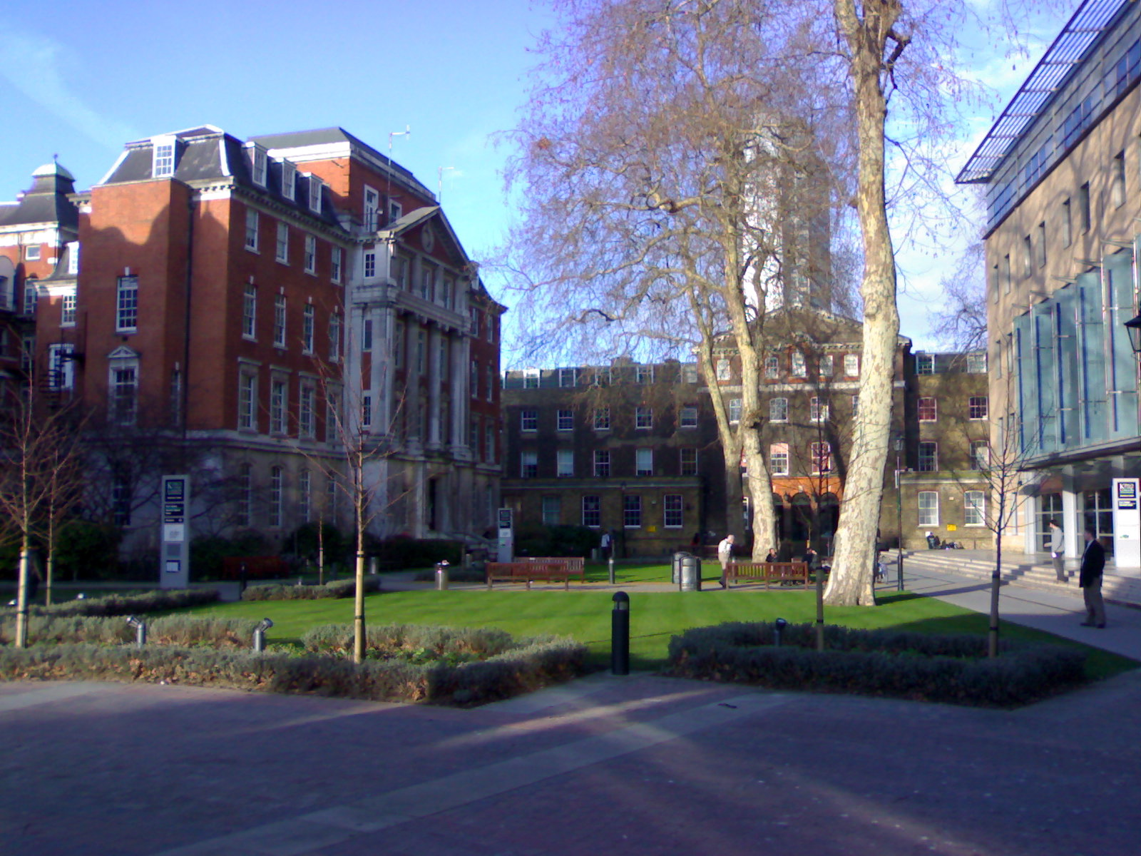 Guy's Campus